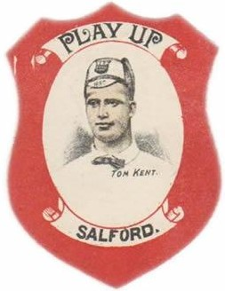 Collectable card of rugby union player Tom Kent, Salford player